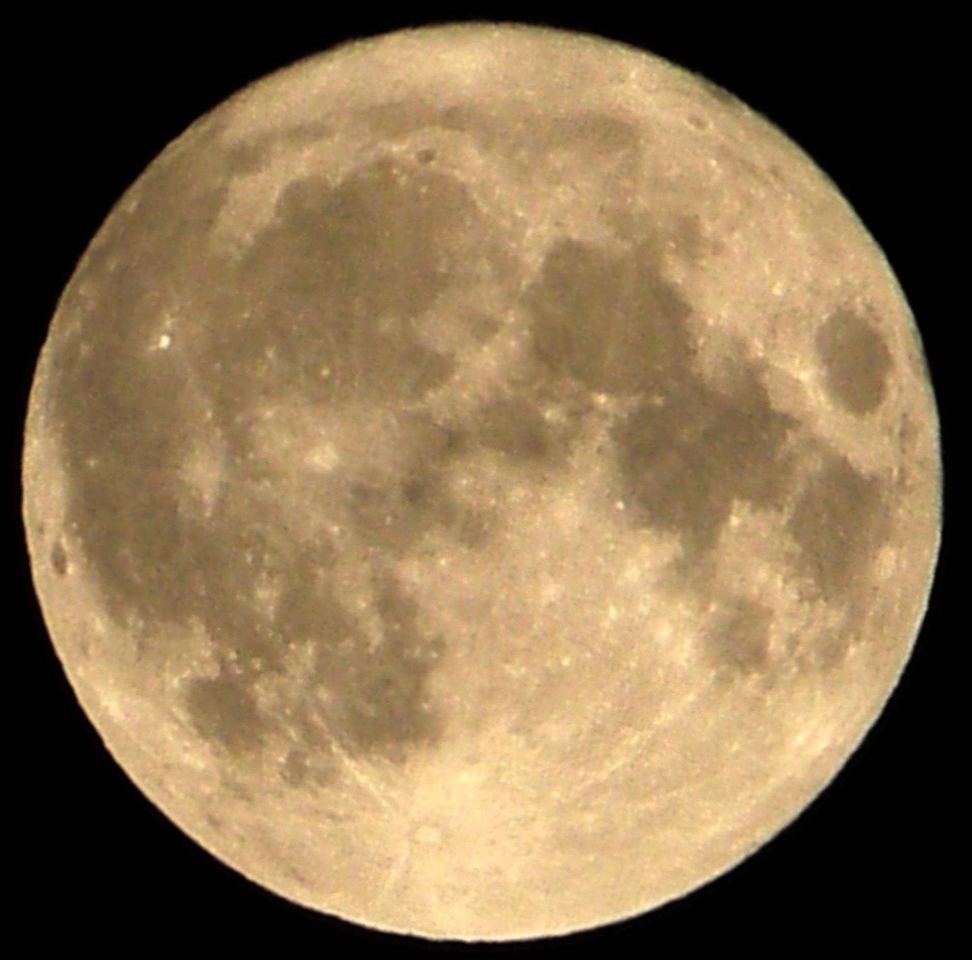 A supermoon is a perigee-syzygy, a new or full moon (syzygy) which occurs when the Moon is at 90% or greater of its mean closest approach to Earth (perigee). The March 19, 2011 supermoon is just 221,566 miles (356,577 kilometers) away from Earth. The last time the full moon approached so close to Earth was in 1993, according to NASA. It is about 30 percent brighter and 14 percent bigger than a full moon at apogee.